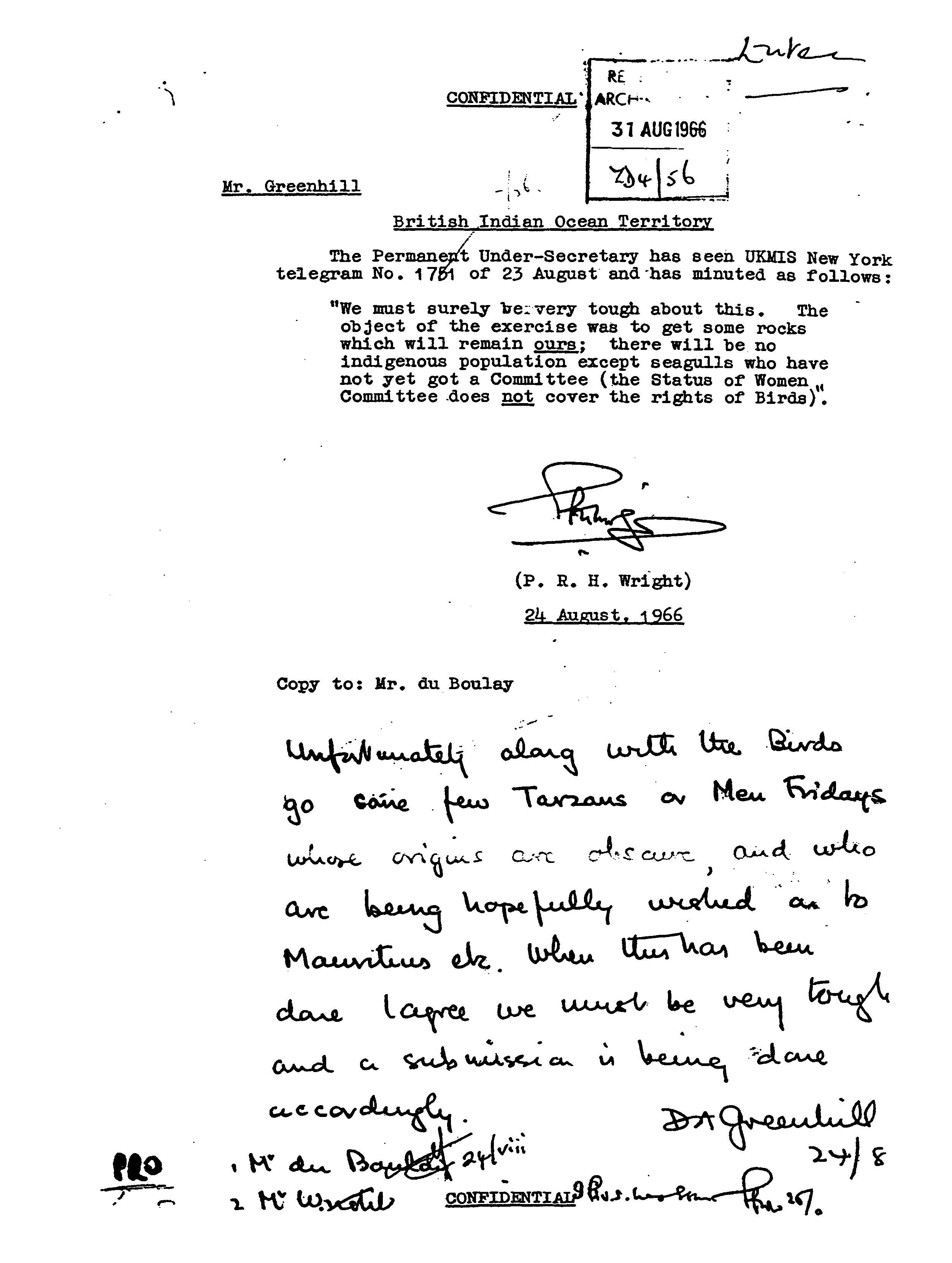 "Unfortunately along with the birds go some few Tarzans or Man Fridays whose origins are obscure, and who are hopefully being wished on to Mauritius etc. When this has been done I agree we must be very tough and a submission is being done accordingly. "